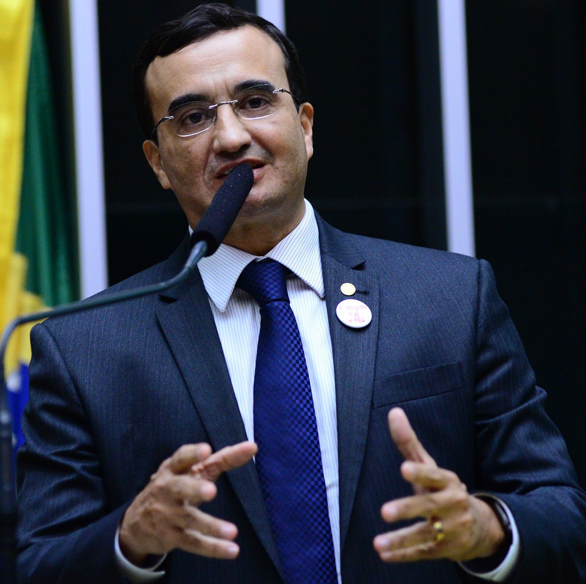 Benjamin Maranhão em abril de 2016.